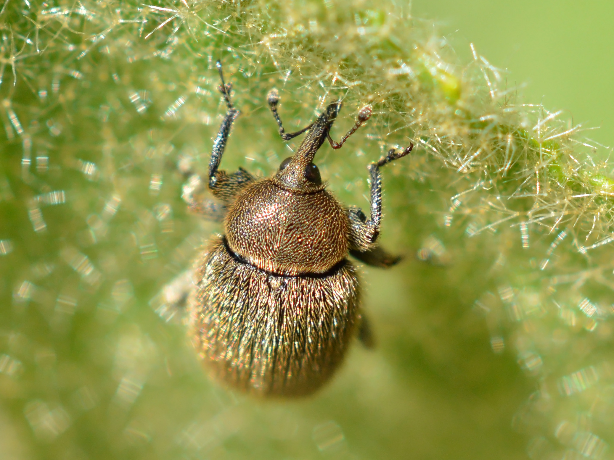 The weevil Rhinusa tetra on a mullein (Verbascum sp.) around Botevgrad, Bulgaria. 4-5mm long.